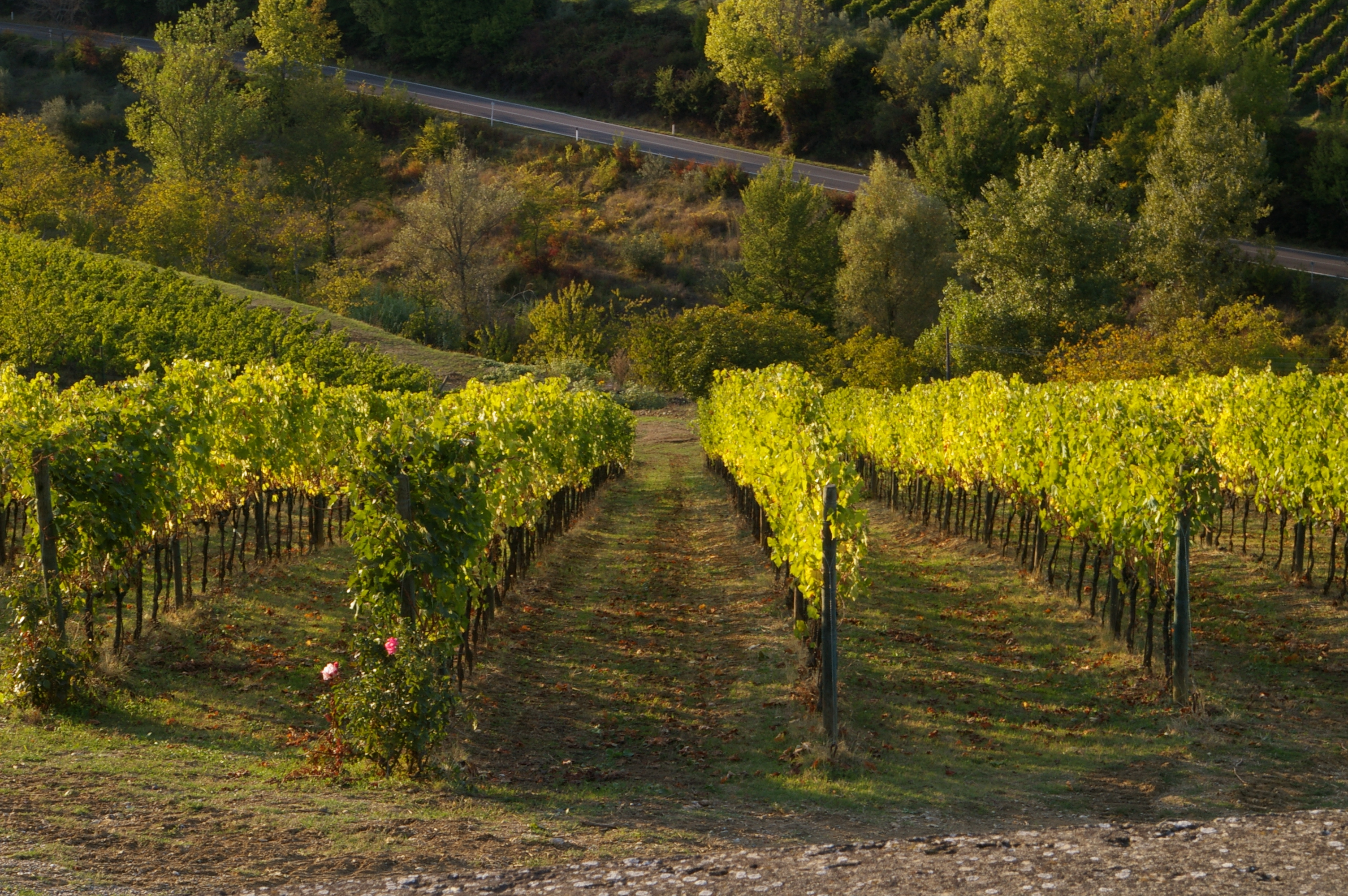 Chianti road in Tuscany